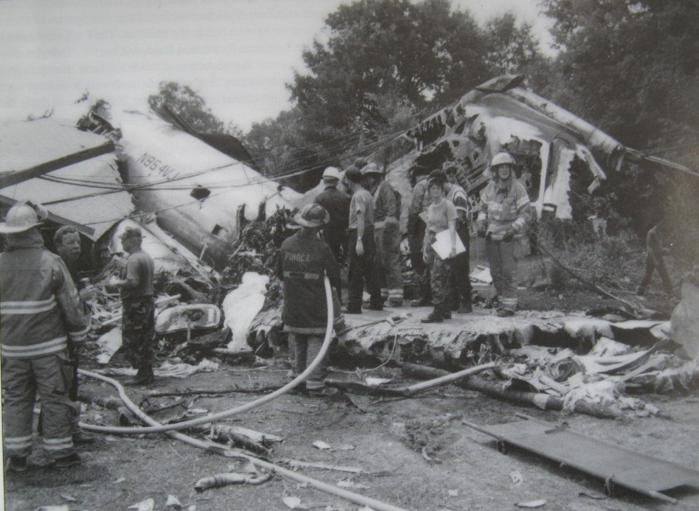 USAir Flight 1016. Charlotte, North Carolina.